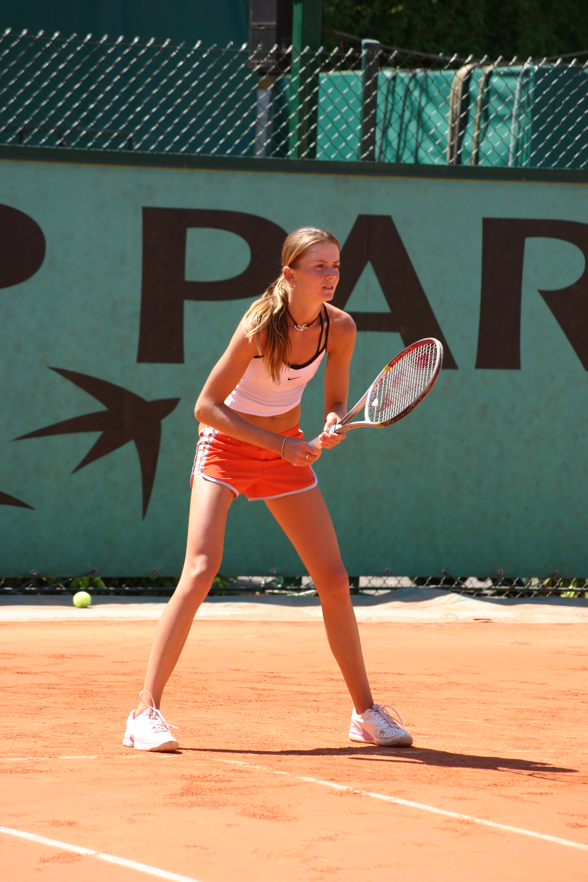 Daniela Hantuchová at Roland Garros 2006